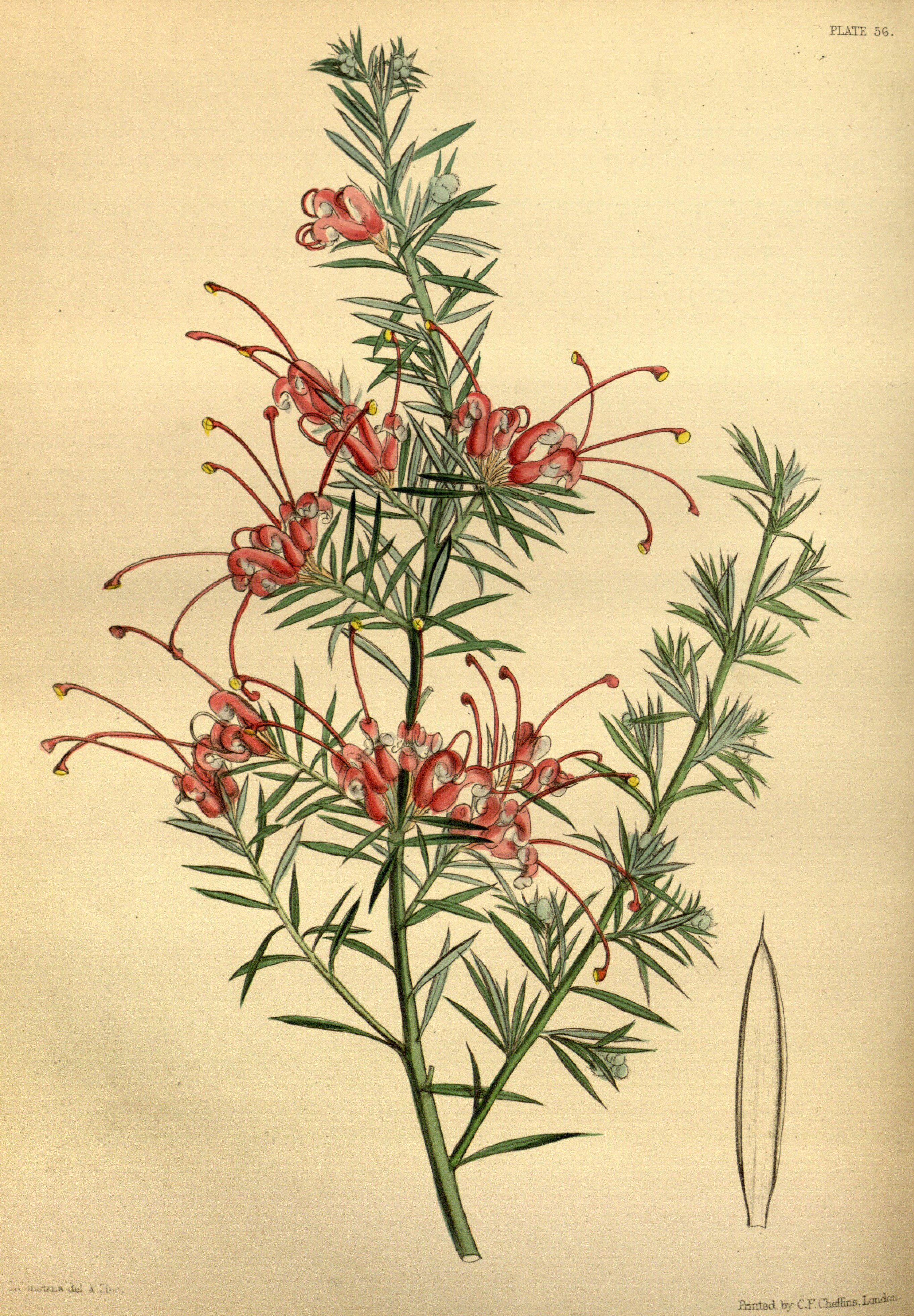 Grevillea lavandulacea Schltdl., syn. Grevillea rosea Lindl.